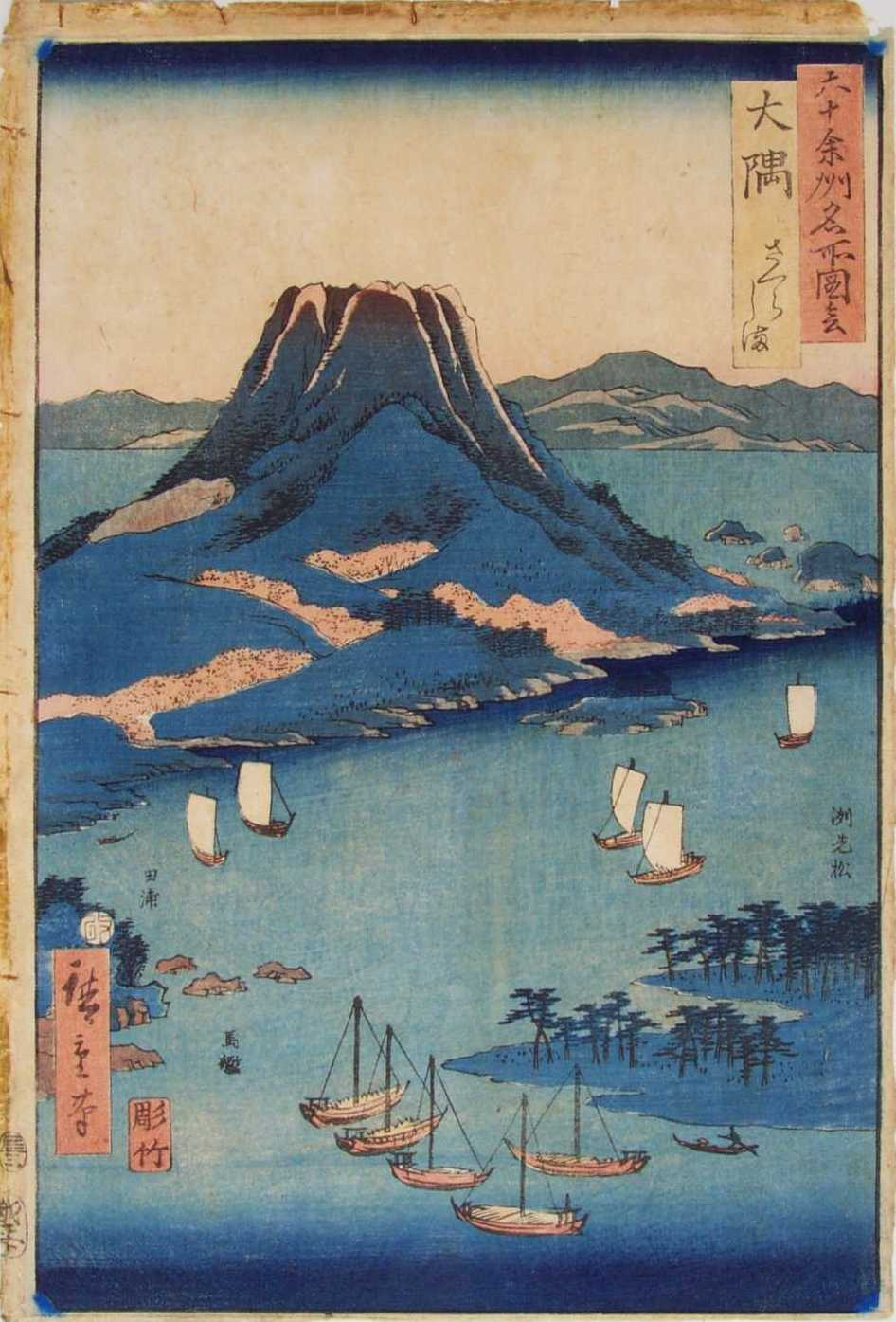 Ōsumi Sakurashima of the Famous Scenes of the Sixty States.